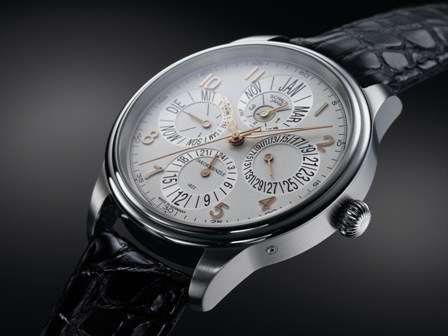 EDITION JAKOB KIENZLE No.4